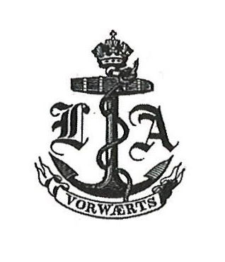 First coat of arms of the Austrian Lloyd Trieste (1836 ff.)